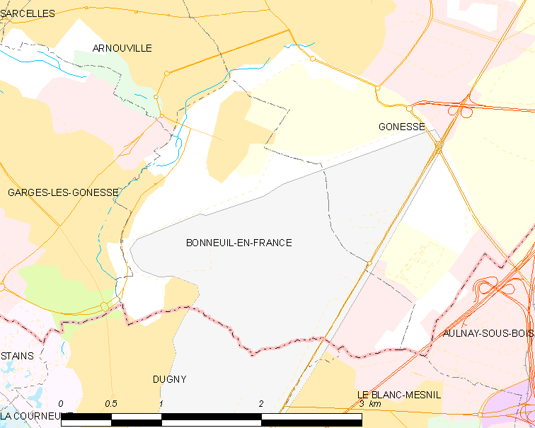 Map of French municipality Bonneuil-en-France